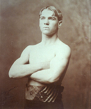 Terry McGovern, american boxer.